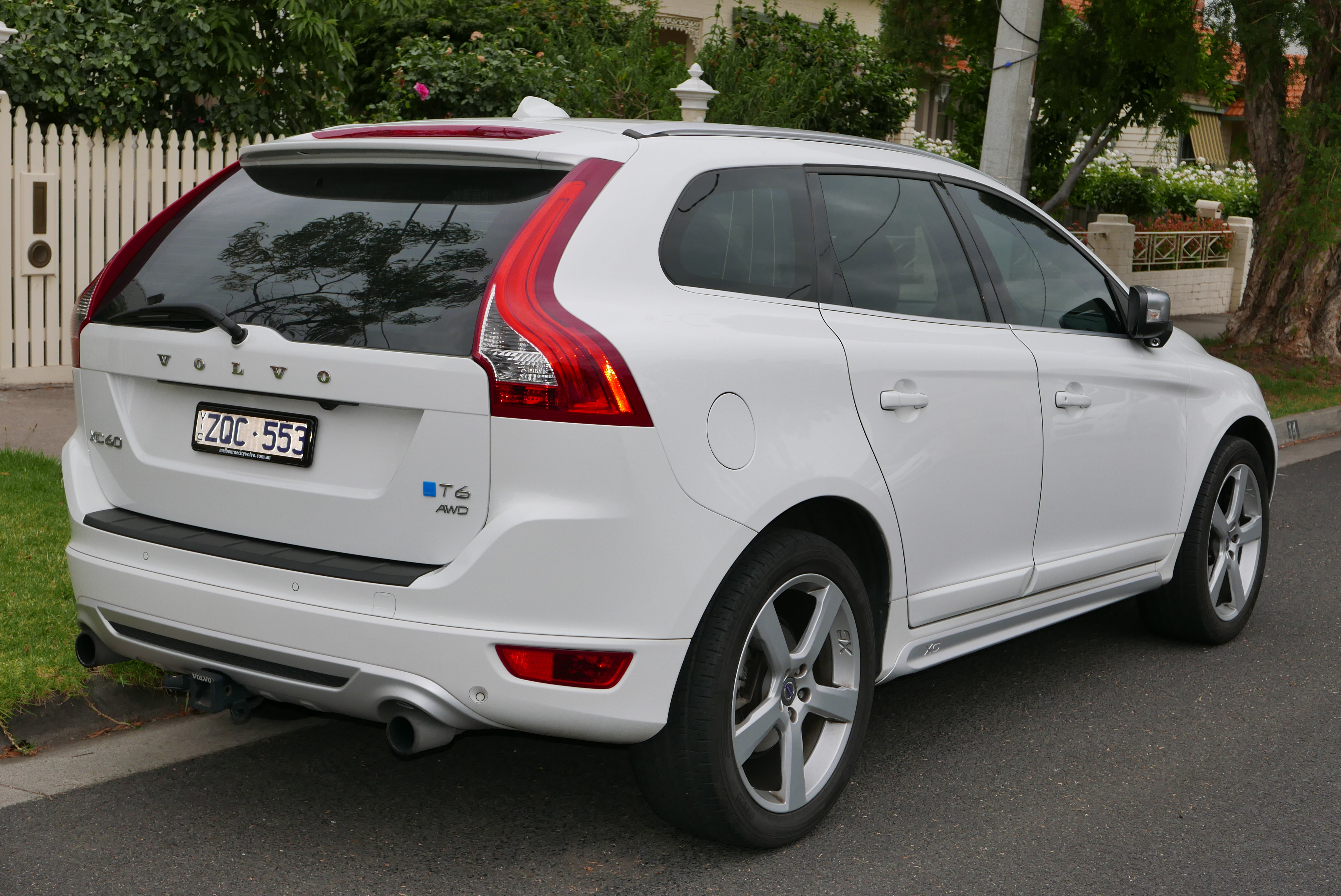 2013 Volvo XC60 (MY13) T6 R-Design wagon. Photographed in Coburg, Victoria, Australia. Vehicle registration enquiry resultsJurisdictionVictoriaRegistrationZQC553Chassis codeYV1DZ90H6D2387530Engine codeB6304T12061204180Compliance date2013-01Year of manufacture2013